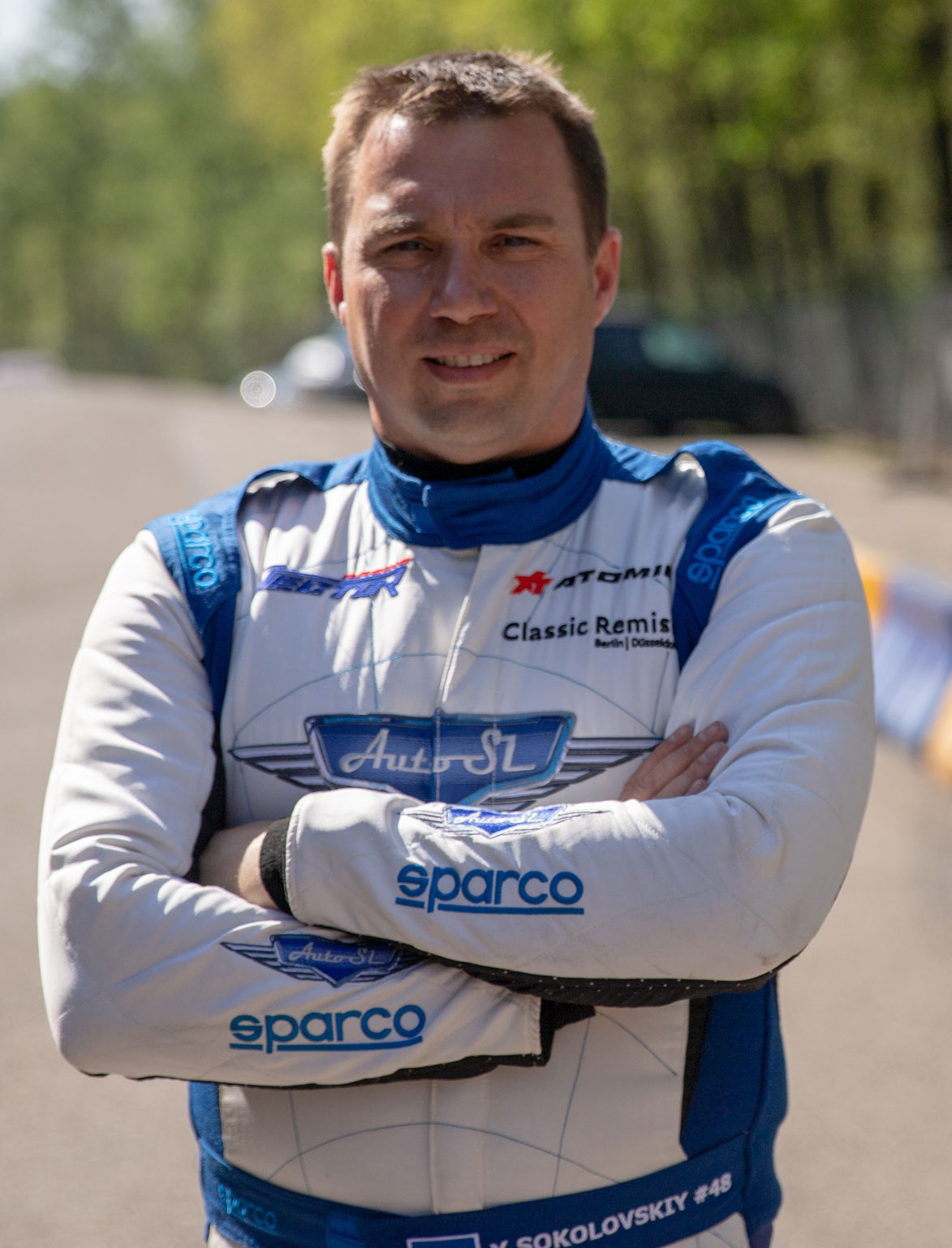 81 Yevgen Sokolovskiy cropped version of: File:Yevgen Sokolovskiy.2.jpg (Author: Marcus Liebsch/MSL-Fotografie)